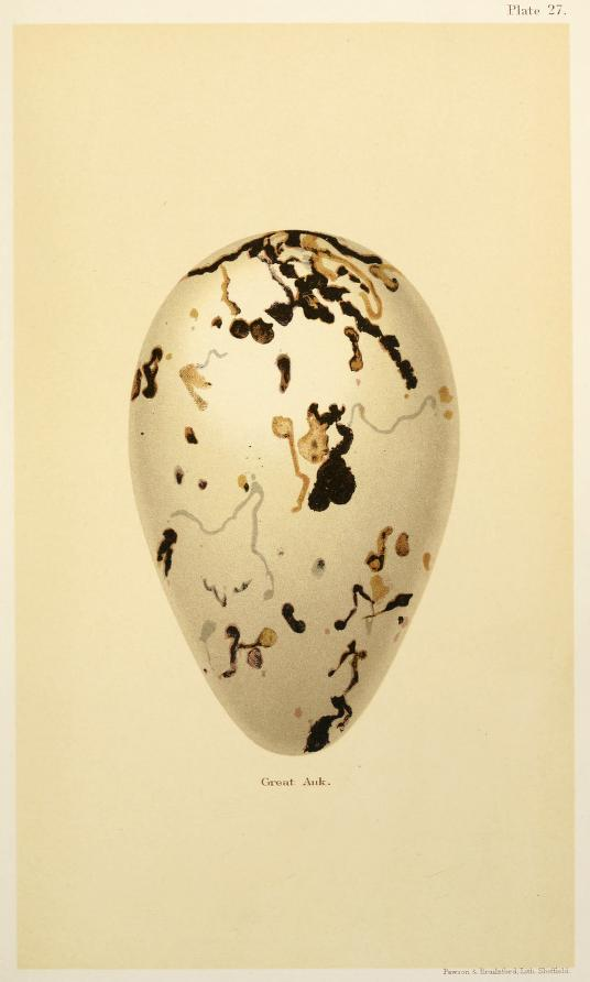 Egg no. 17, the Royal College of Surgeons Egg no. 3 (Dr. Jack Gibson's Egg) Egg per Fuller 1999